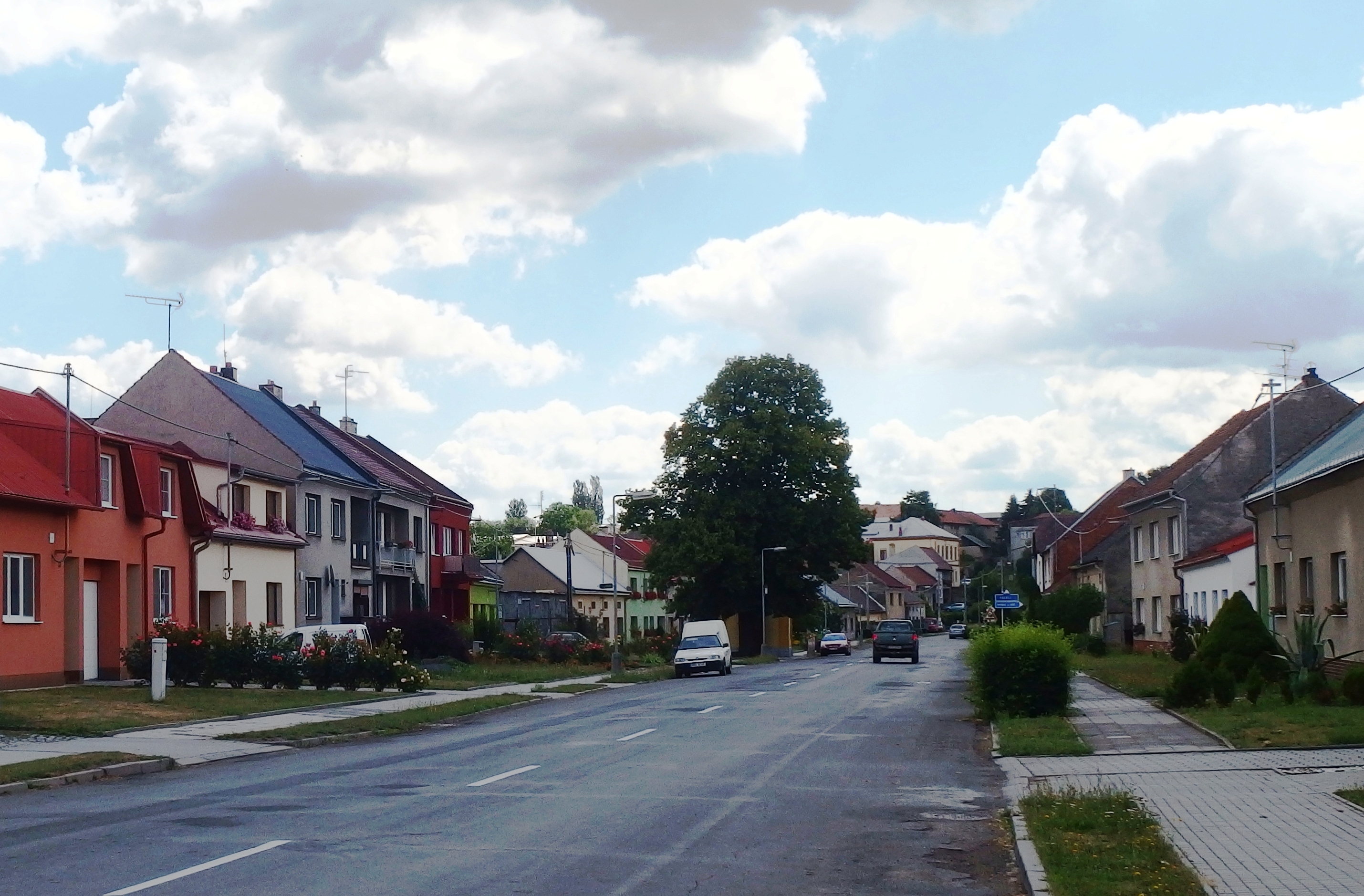 Želatovice, Přerov District, Czech Republic.